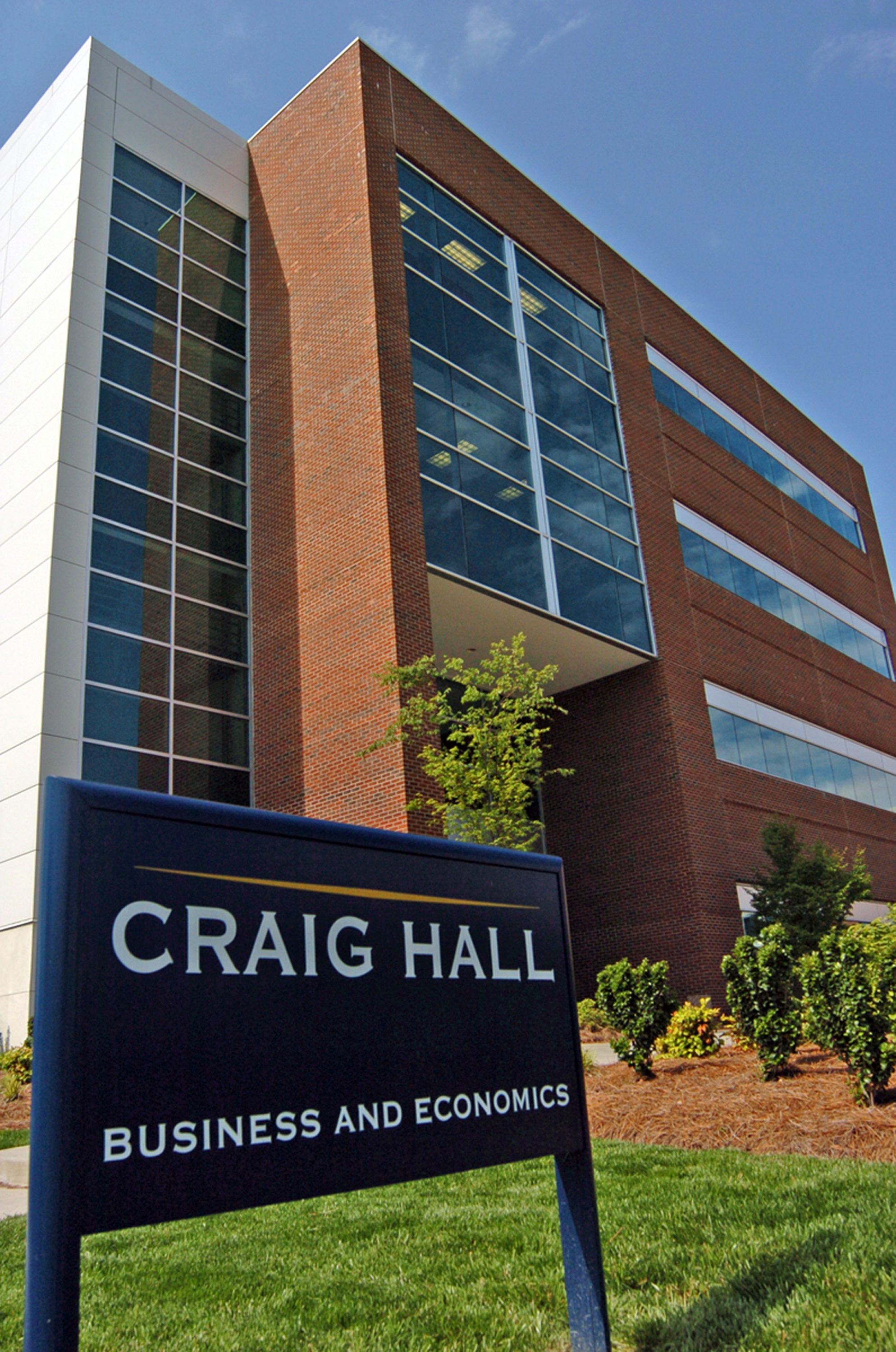 Craig Hall represents the School of Business and Economics